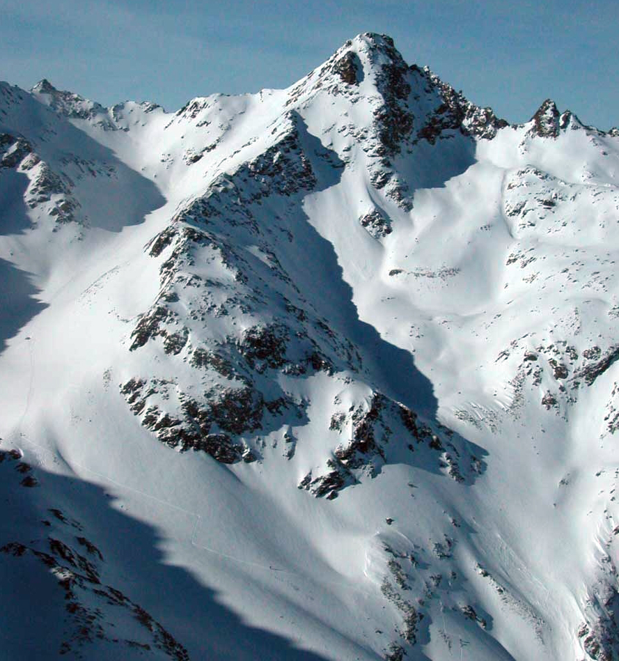 Sulzkogel (3016m) from East (Schartenkopf)